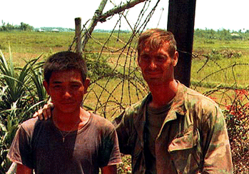 Lt. Thomas R. Norris and Petty Officer Third Class Nguyen Van Kiet went behind enemy lines in a sampan to rescue mission Lt.Col Iceal Hambleton. Norris was awarded the Medal of Honor and Kiet was recognized with the Silver Star.